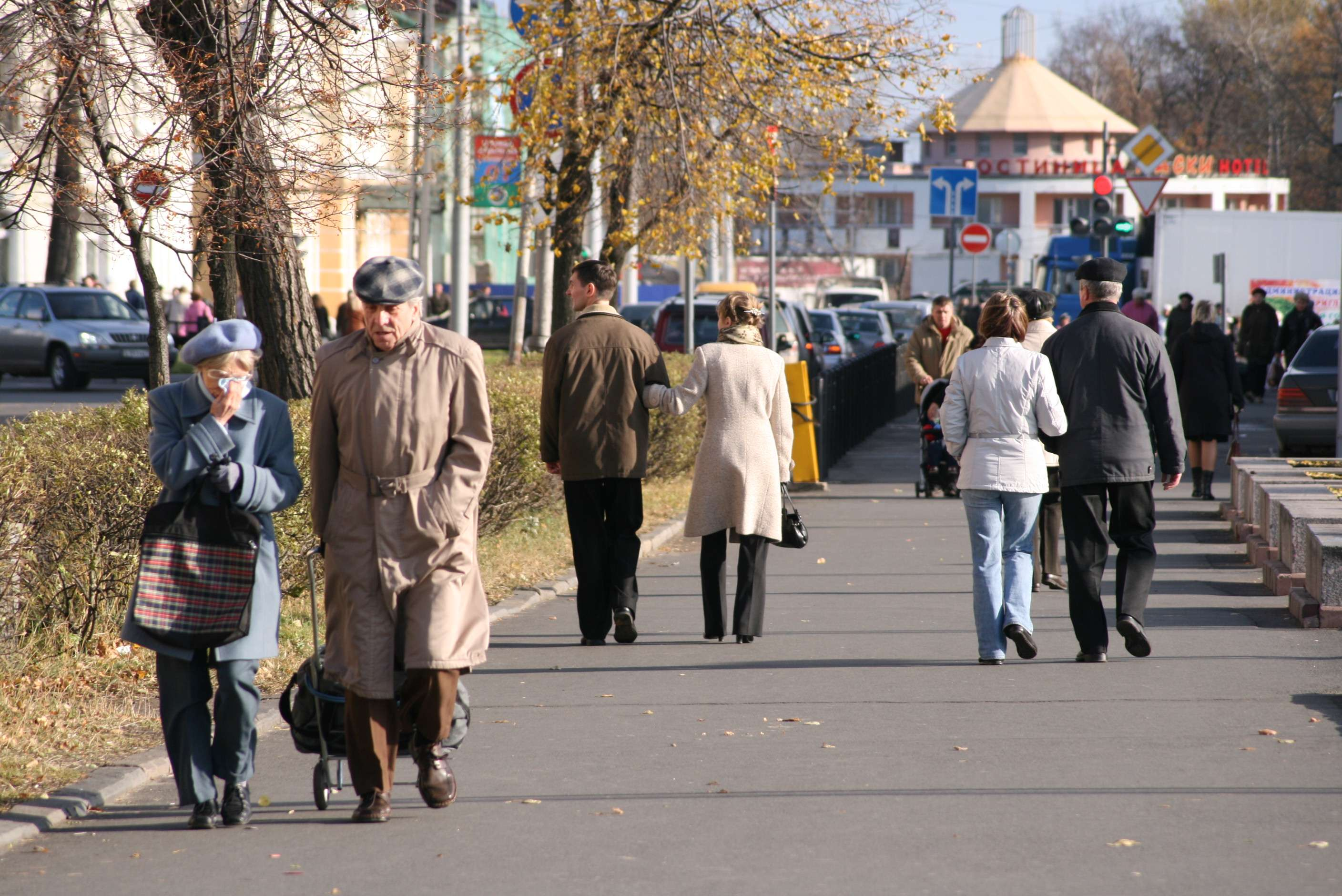 Petrozavodsk, Karl Marx street in October 2008